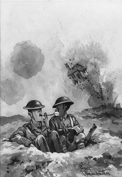 "The Growth of Democracy" by English cartoonist Bruce Bairnsfather (1888-1959). Caption: "Colonel Sir Valtravers Plantagenet gladly accepts a light, during a slight lull in a barrage, from a private in the Benin Rifles". Published in "The Bystander" (London), September 5, 1917.